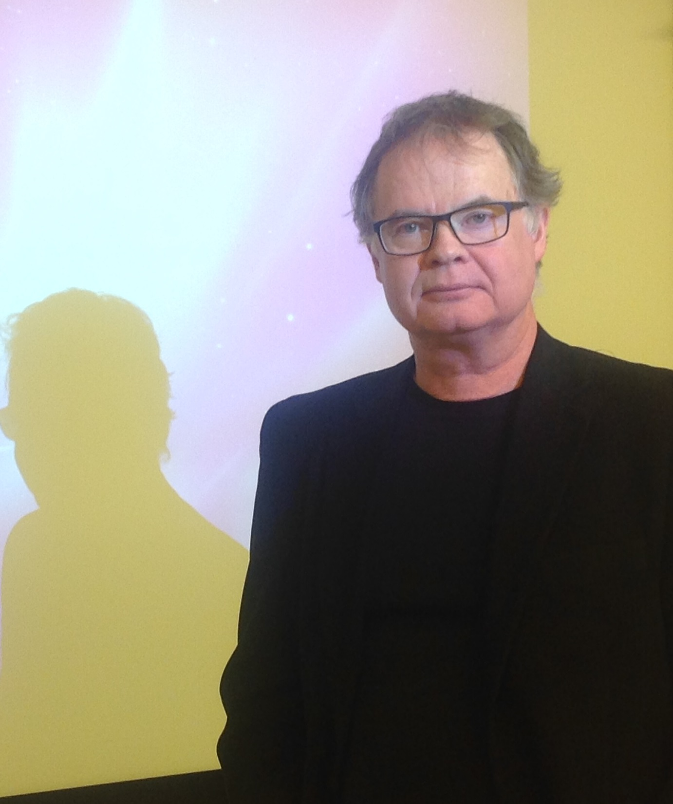 Norwegian jazz and yoik musician Frode Fjellheim (born 1959)